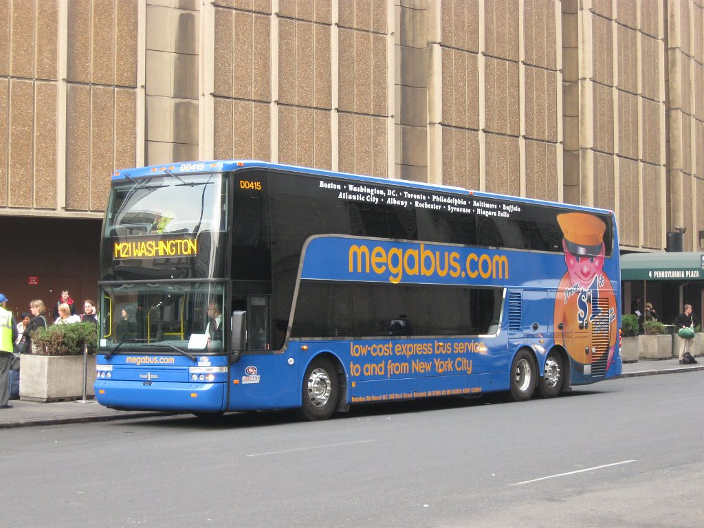 Coach USA Van Hool TD925 Astromega double-deck bus DD415 waits outside Madison Square Garden and Penn Station to depart on the 1715 departure at this stop.